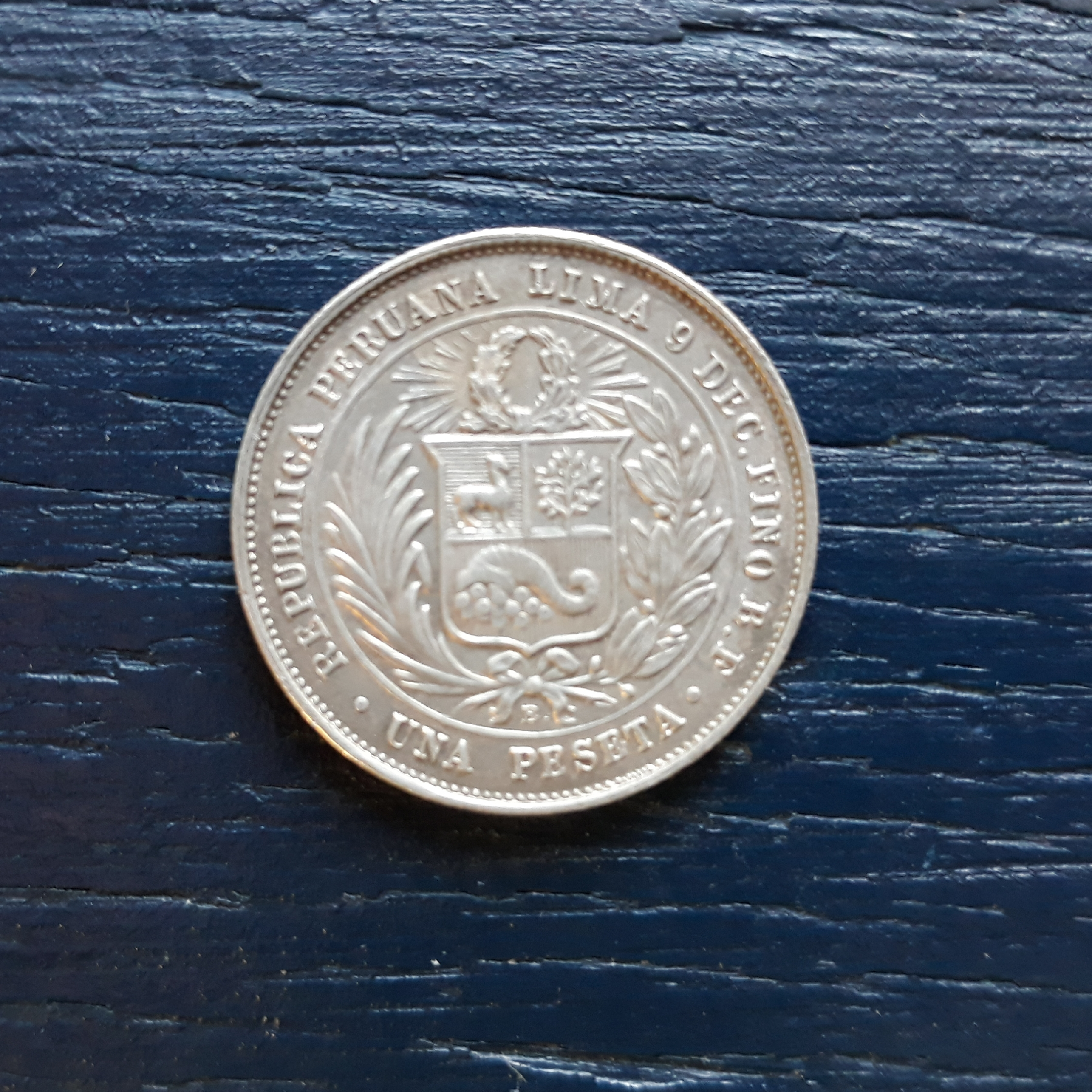 The back of the 1 peseta coin from 1880